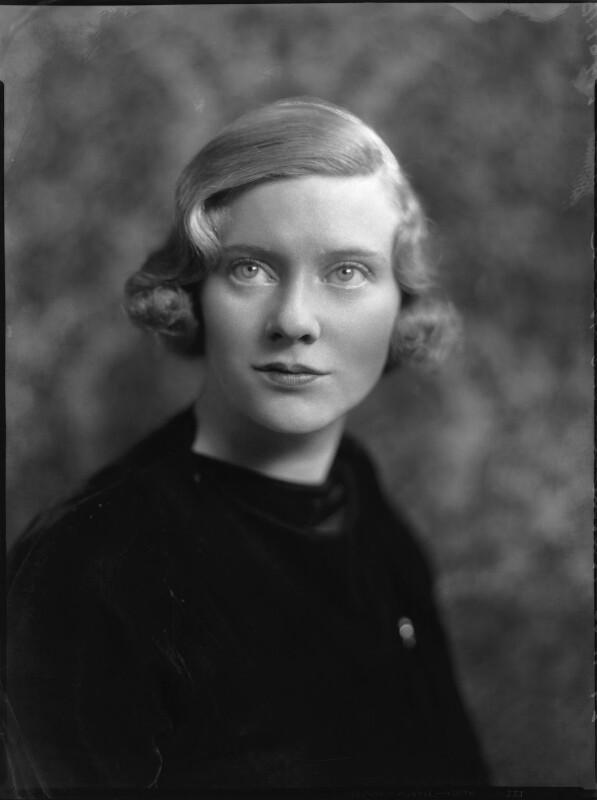 Maureen Constance Hamilton-Temple-Blackwood (née Guinness), Marchioness of Dufferin and Ava by Bassano Ltd whole-plate film negative, 24 November 1933 Given by Bassano & Vandyk Studios, 1974 Photographs Collection NPG x34643